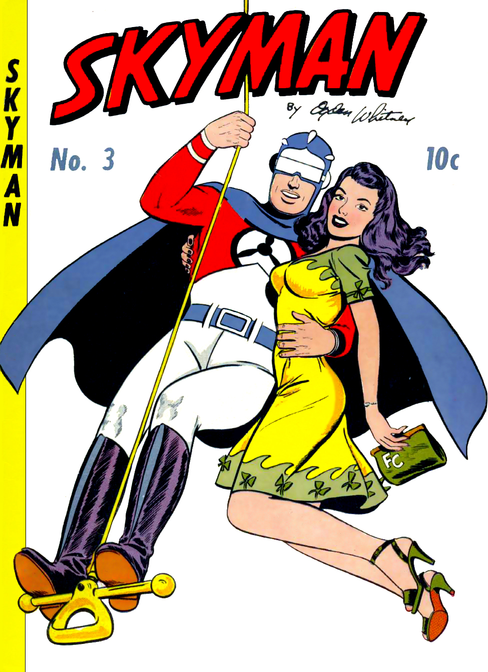 Cover of Skyman number 3 (Columbia Comics, 1947). Artwork by Ogden Whitney, later issues featured a considerable amount of "good girl" artwork. Image has fallen into the public domain due to lapsed copyright, see PD notice below.